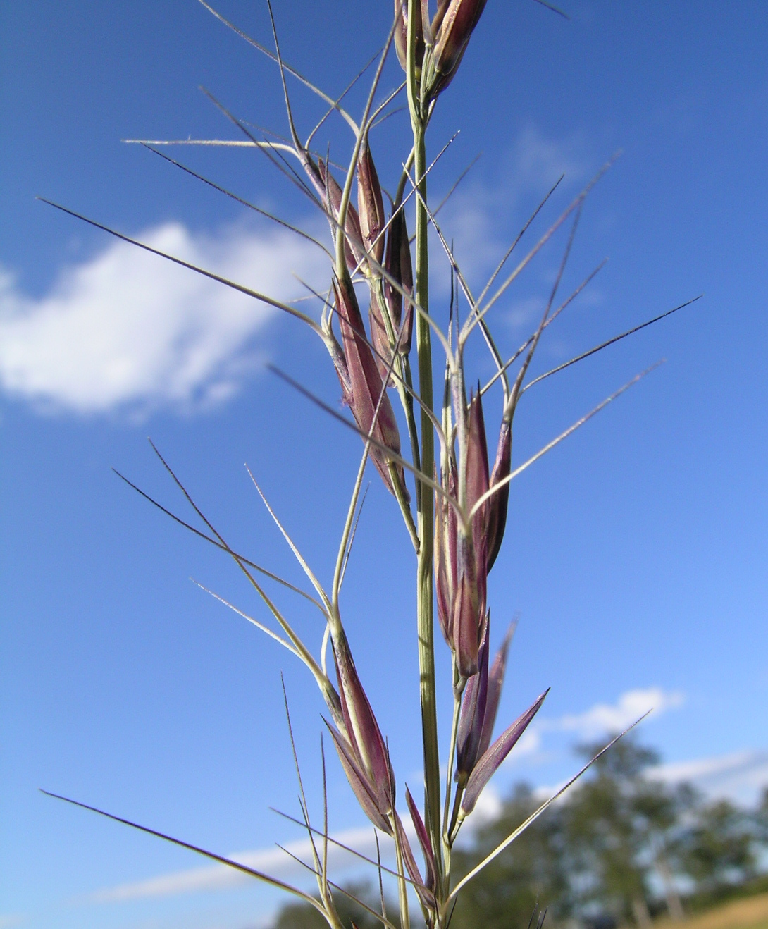 Aristida acuta at Yarravel, New South Wales, AU